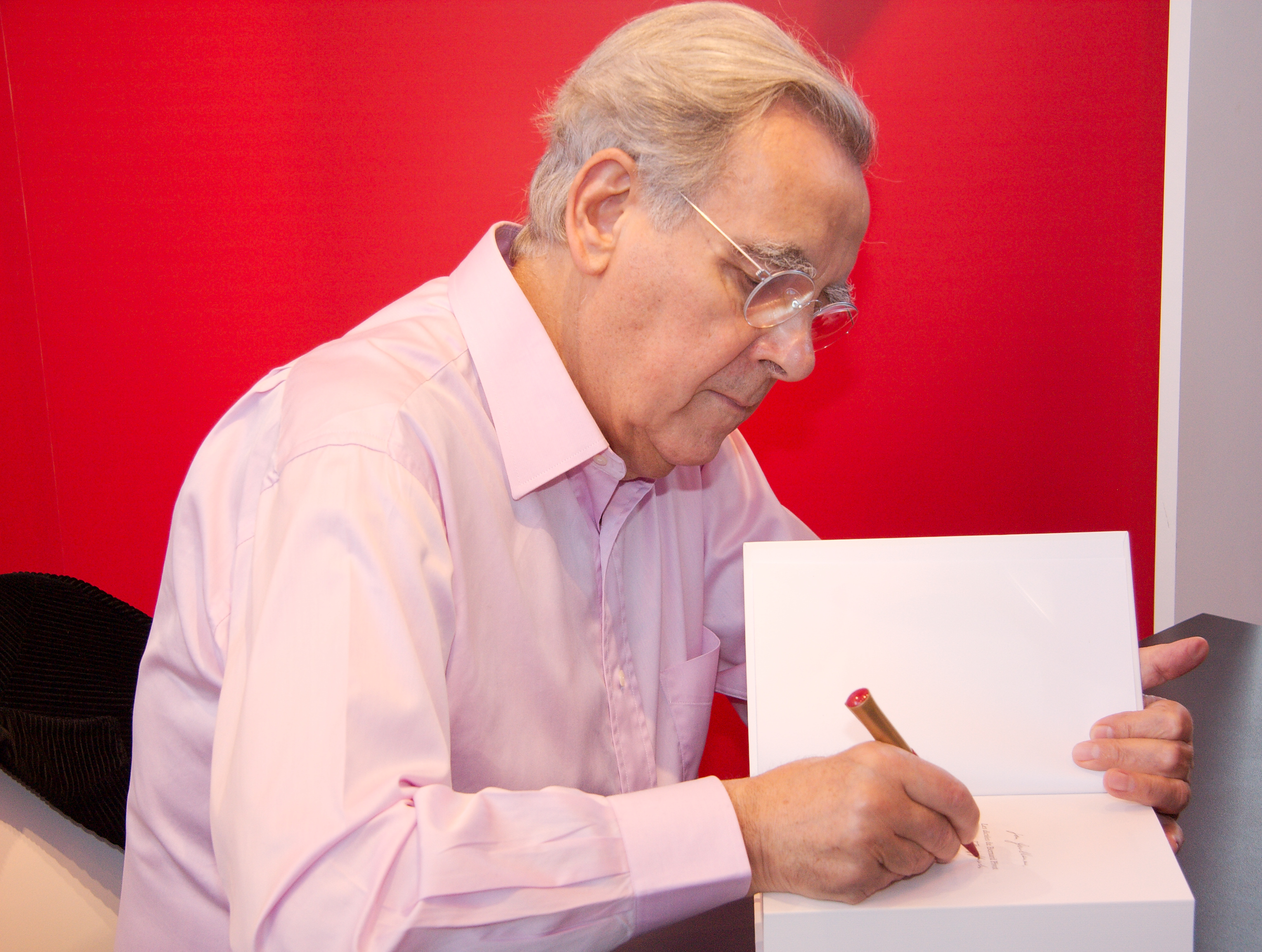 Autograph session with Bernard Pivot at Salon du livre 2009 (Paris, France)